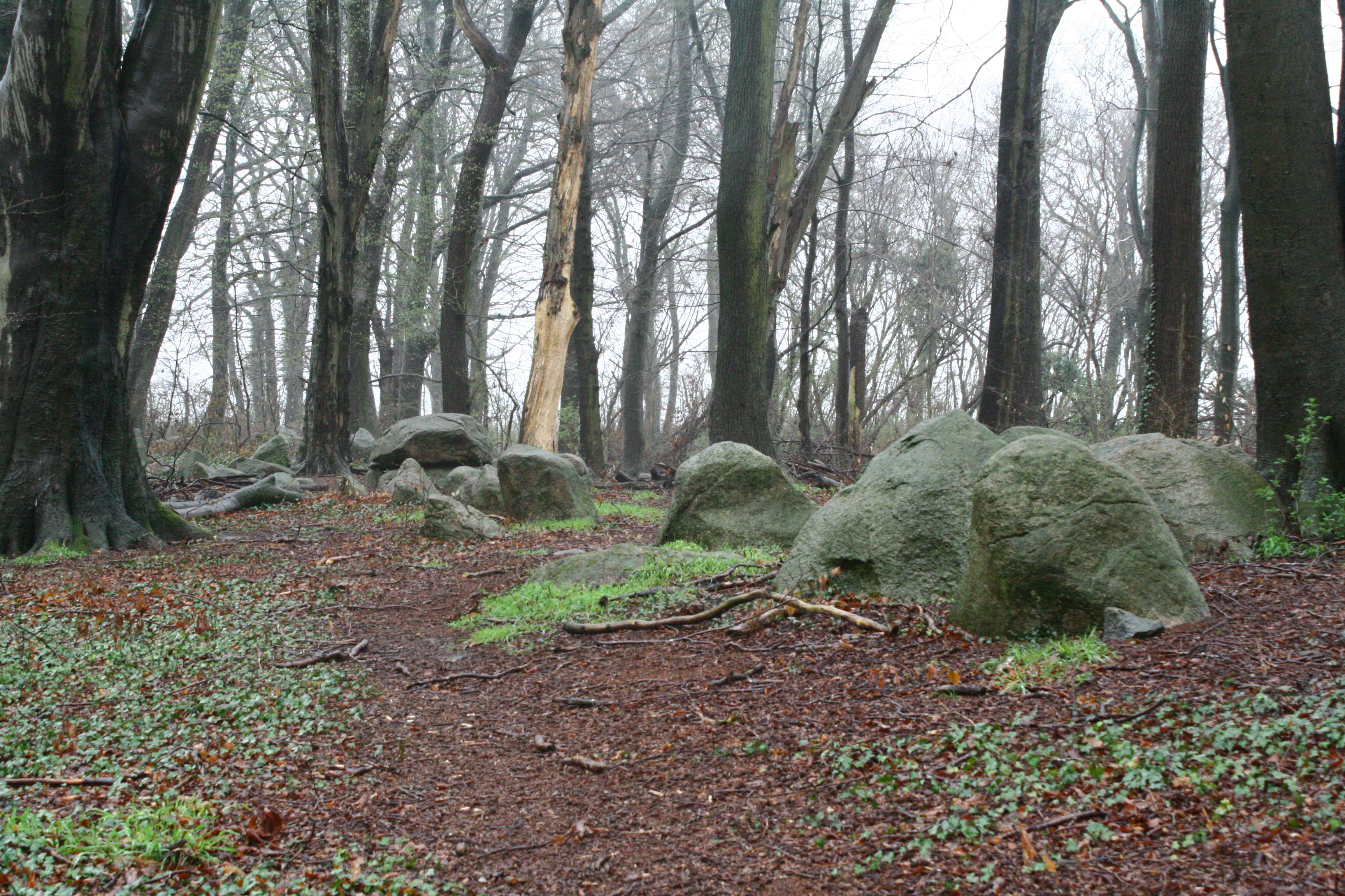 Megalithic tomb Bliedersdorf 2